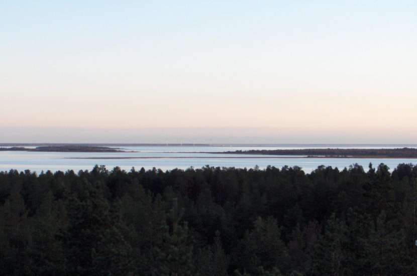 A view from Virpiniemi ski jump tower to sea in Haukipudas, Finland